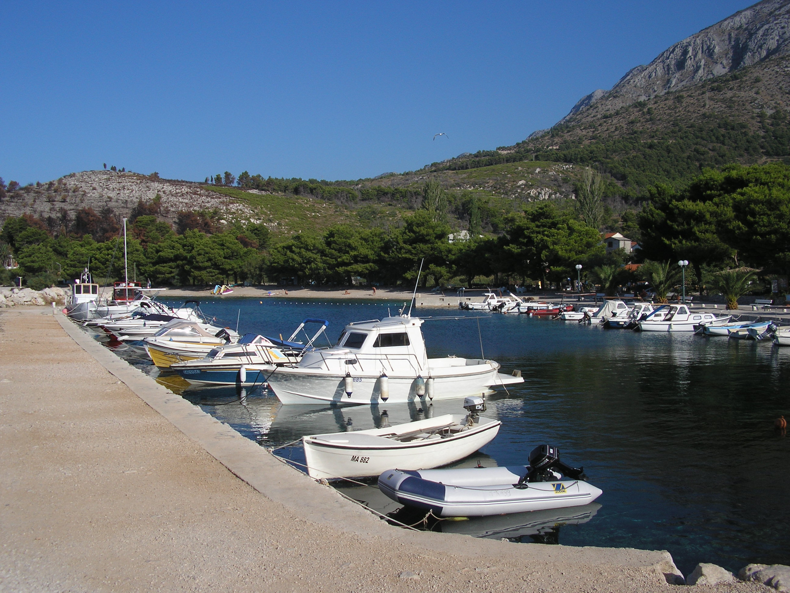 Harbour in Živogošće-Blato(Croatia)